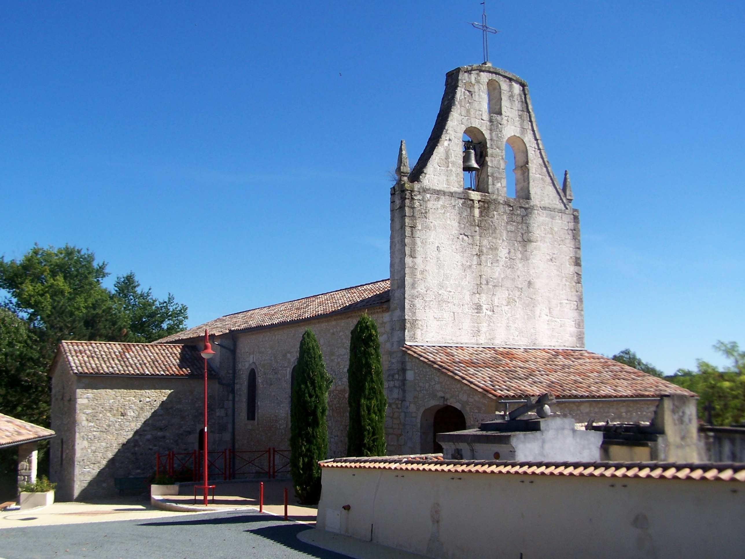 Saint Vincent church of Savignac-de-Duras (Lot-et-Garonne, France)